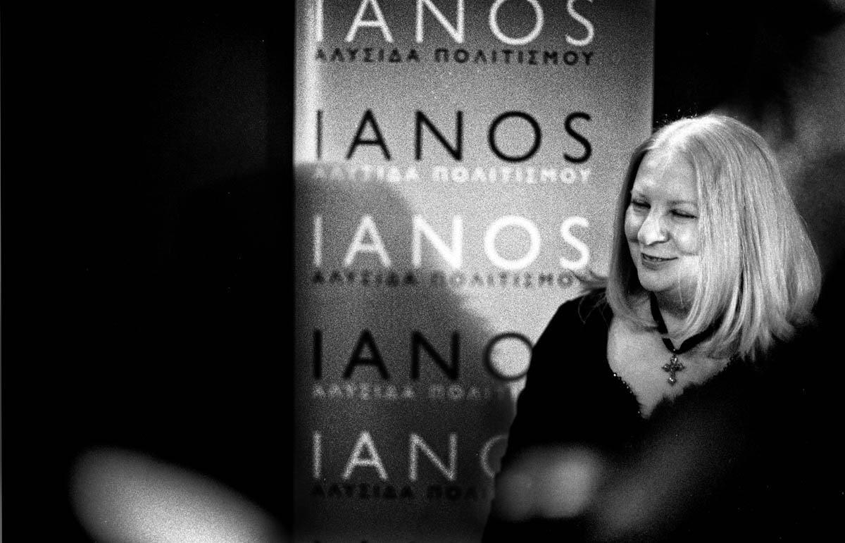 Greek musician and composer Lena Platonos in Athens, Greece, at 19-3-2008